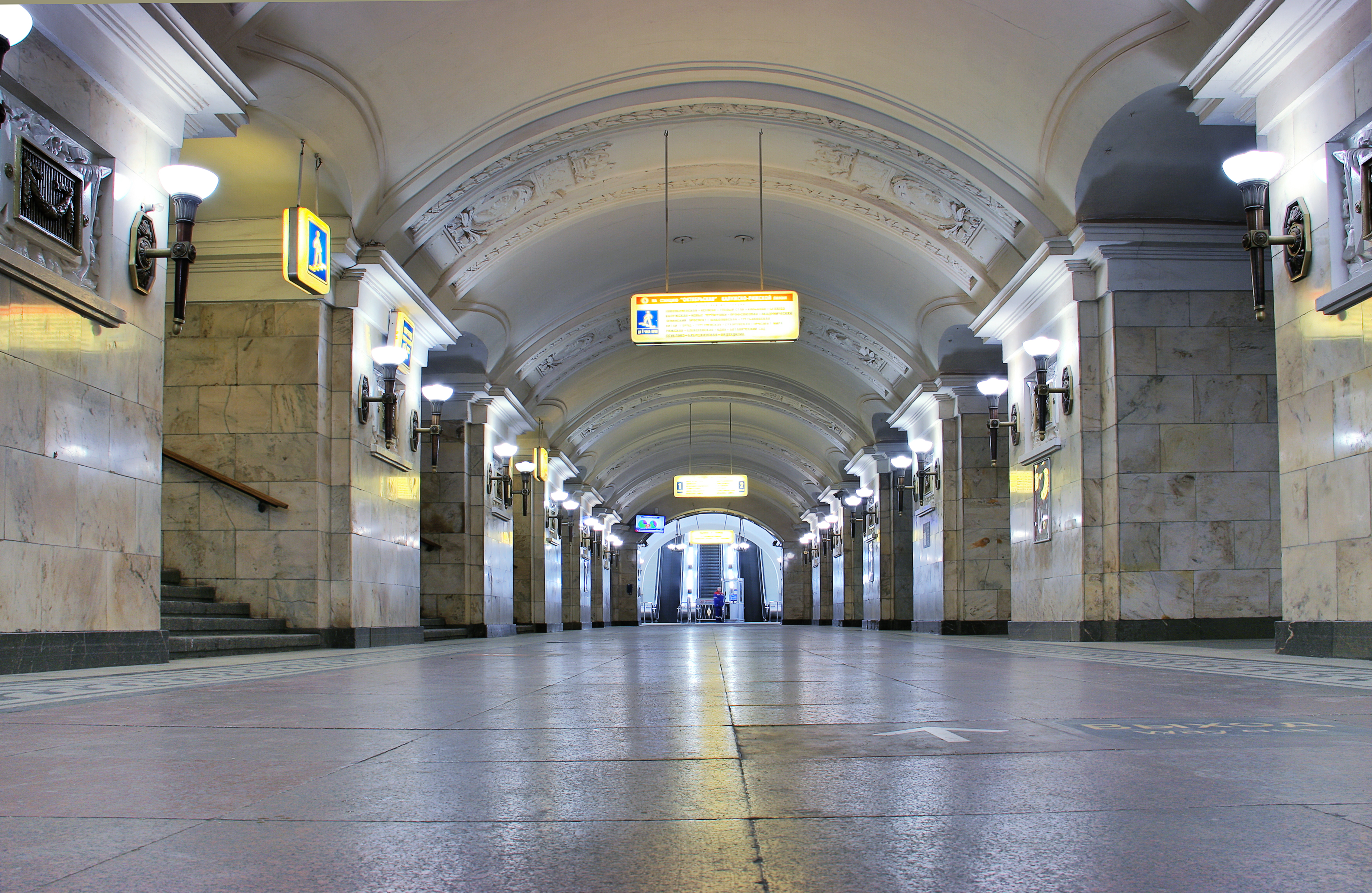 Moscow Metro, Oktyabrskaya-Koltsevaya Station